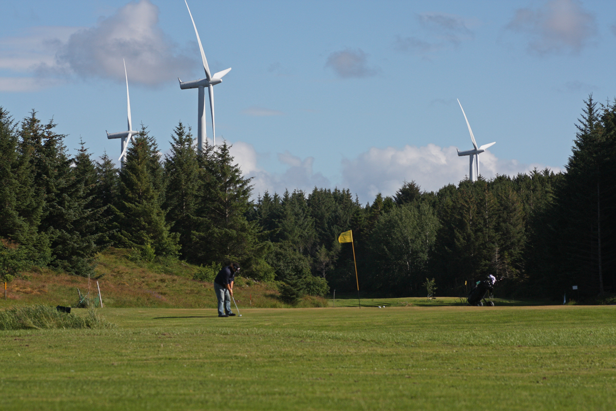 Dyrnesdalen golfbane, Smøla Norsk (bokmål): Dyrnesdalen golfbane, Smøla